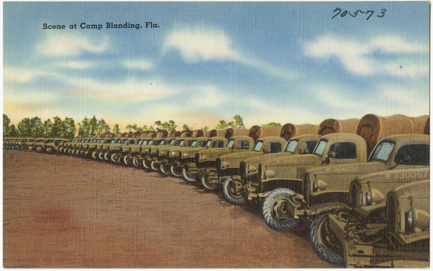 File name: 06_10_007223 Title: Scene at Camp Blanding, Fla. Date issued: 1930 - 1945 (approximate) (Uploader's note, after 1940, when the camp was built) Physical description: 1 print (postcard) : linen texture, color ; 3 1/2 x 5 1/2 in. Genre: Postcards Subject: Military facilities Notes: Title from item. Collection: The Tichnor Brothers Collection Location: Boston Public Library, Print Department Rights: No known restrictions